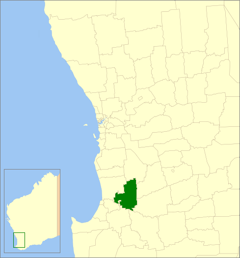 Description=Location of the Local Government Area in Western Australia